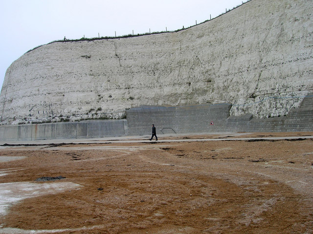 Undercliff Walk, Rottingdean This point marks the site of a former open air pool that operated near the base of the cliff until the mid 1980s